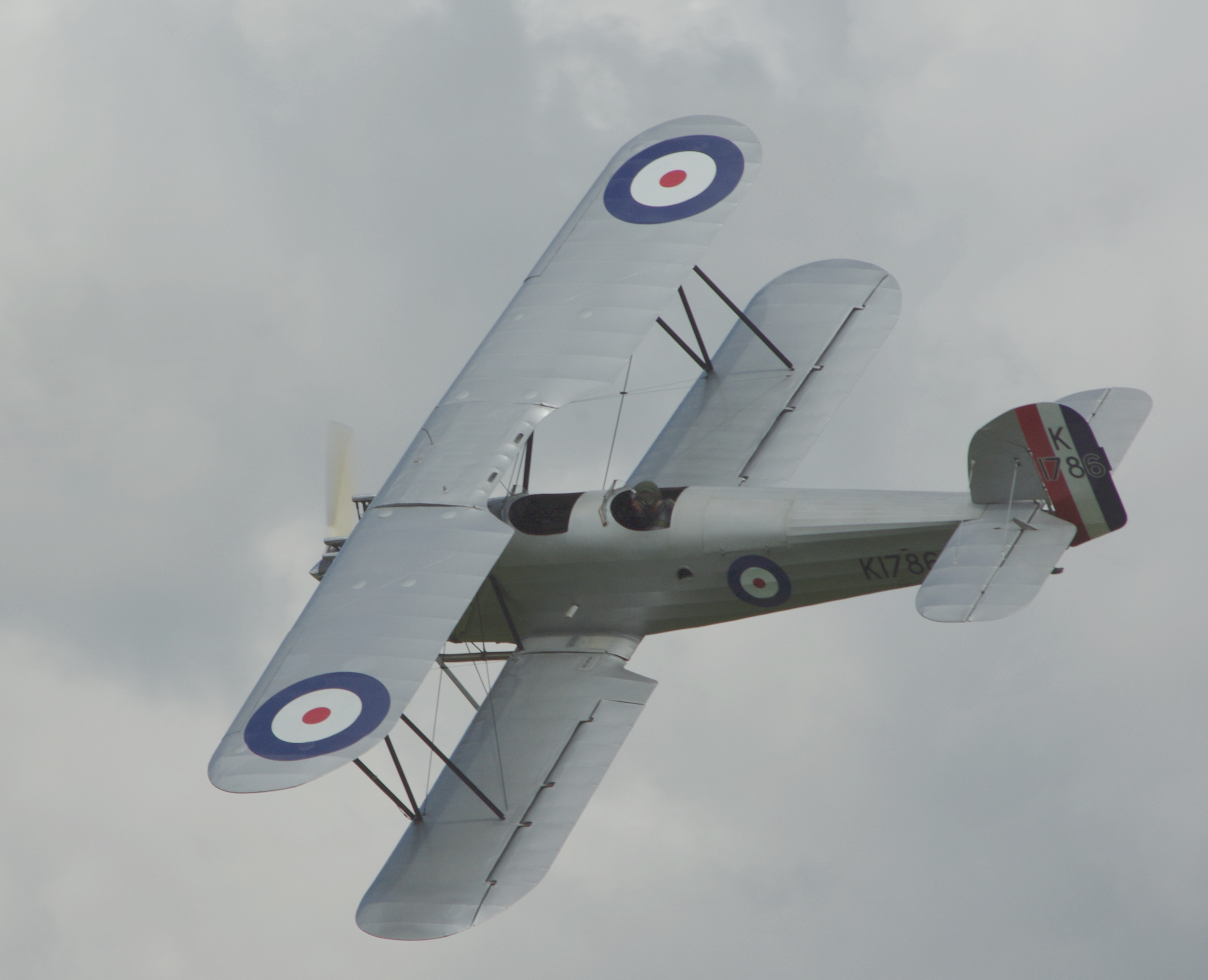 The Shuttleworth Collection's Hawker Tomtit at Old Warden's Summer Show 2009